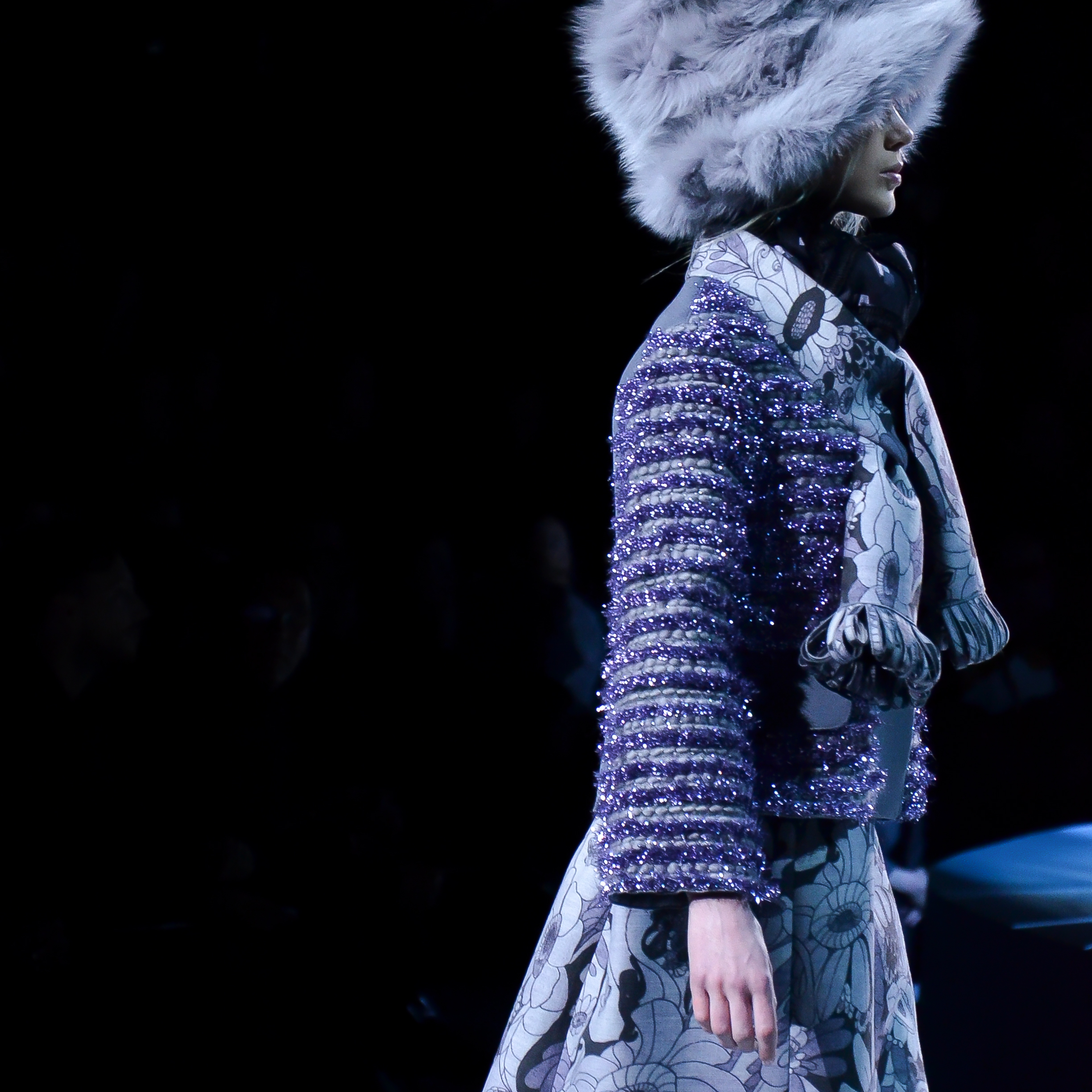 A model walks the runway at the Marc Jacobs Fall/Winter 2012 show at New York Fashion Week, February 2012.